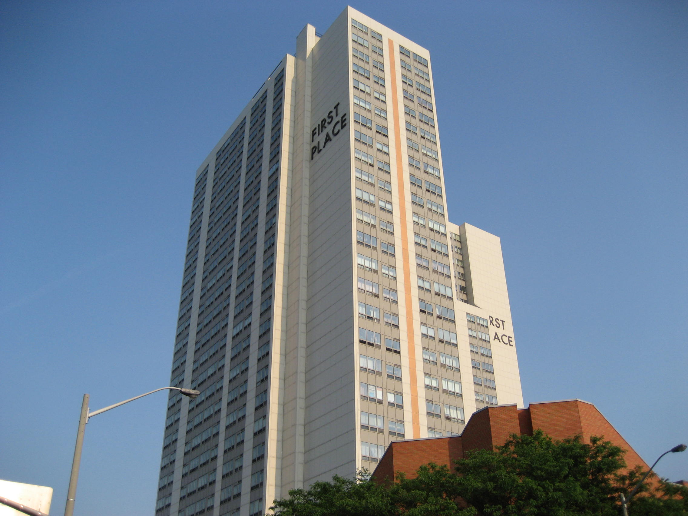 First Place Hamilton, Seniors Apartments, Wellington Street North, Hamilton